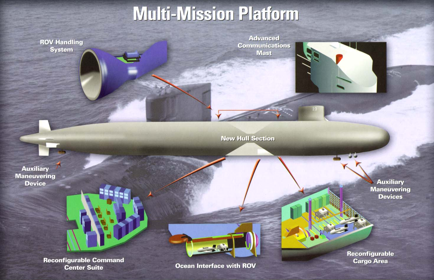 Groton, Conn. (February, 2005) - The Seawolf-class nuclear-powered attack submarine USS Jimmy Carter (SSN 23) is the third and final submarine of the Seawolf-class. A unique feature of the Jimmy Carter is a 100-foot hull extension called the Multi-Mission Platform, which provides enhanced payload capabilities, enabling the submarine to accommodate the advanced technology required to develop and test a new generation of weapons, sensors and undersea vehicles. The Jimmy Carter was delivered to the U.S. Navy on Dec. 22, 2004 and commissioned on Feb. 19, 2005.